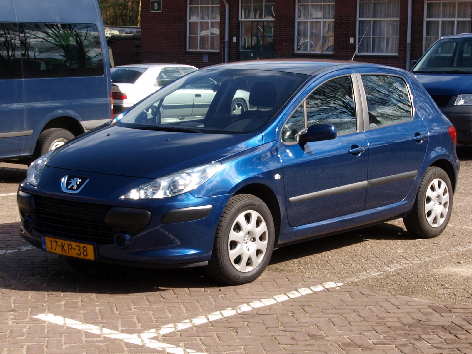 Peugeot of the dutch army licenceno.17-KP-38.